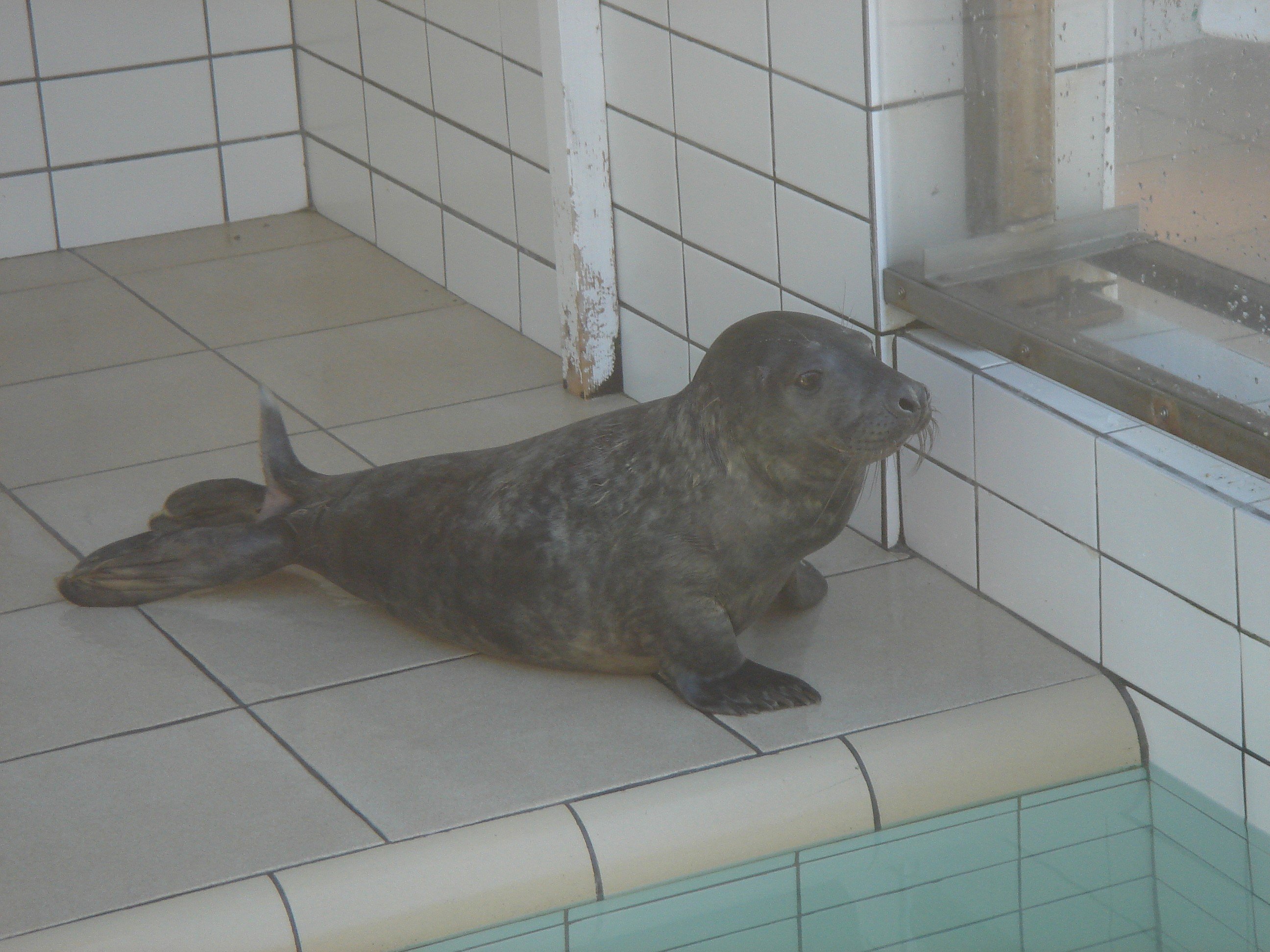 Young seal (Halichoerus grypus) sheltered at Ecomare, Texel, Netherlands.